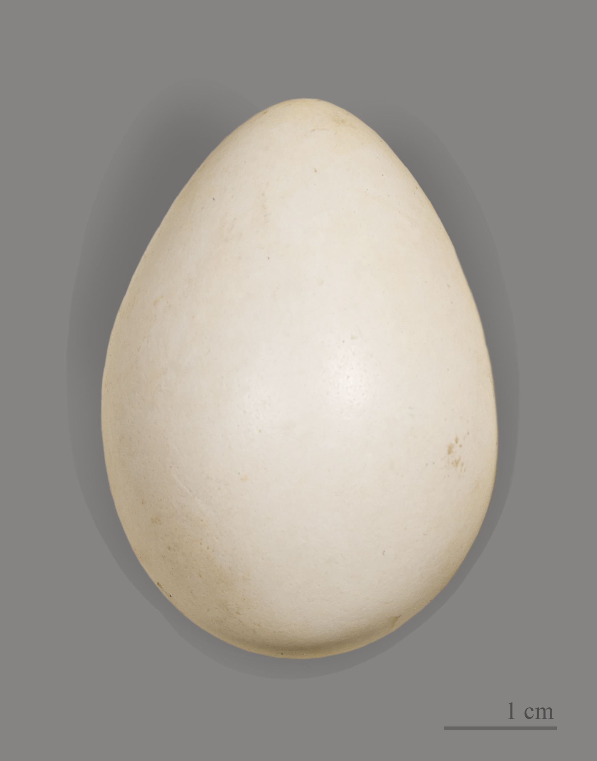 Egg of Black Grouse. Former Collection of Jacques Perrin de Brichambaut